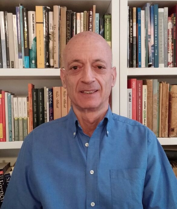 Prof. Gabriel M. Rosenbaum